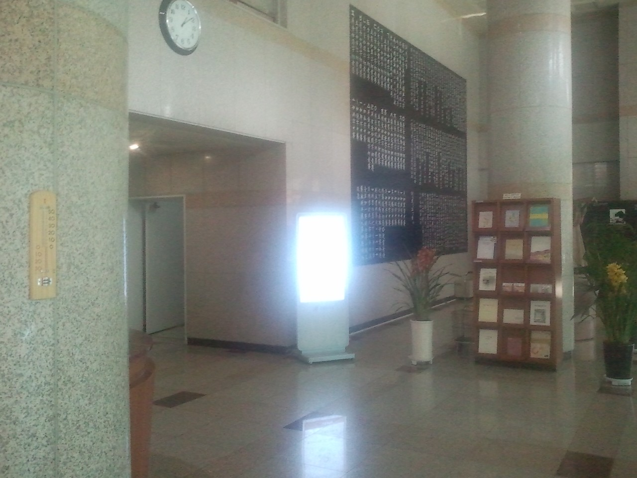 NIKL`s lobby